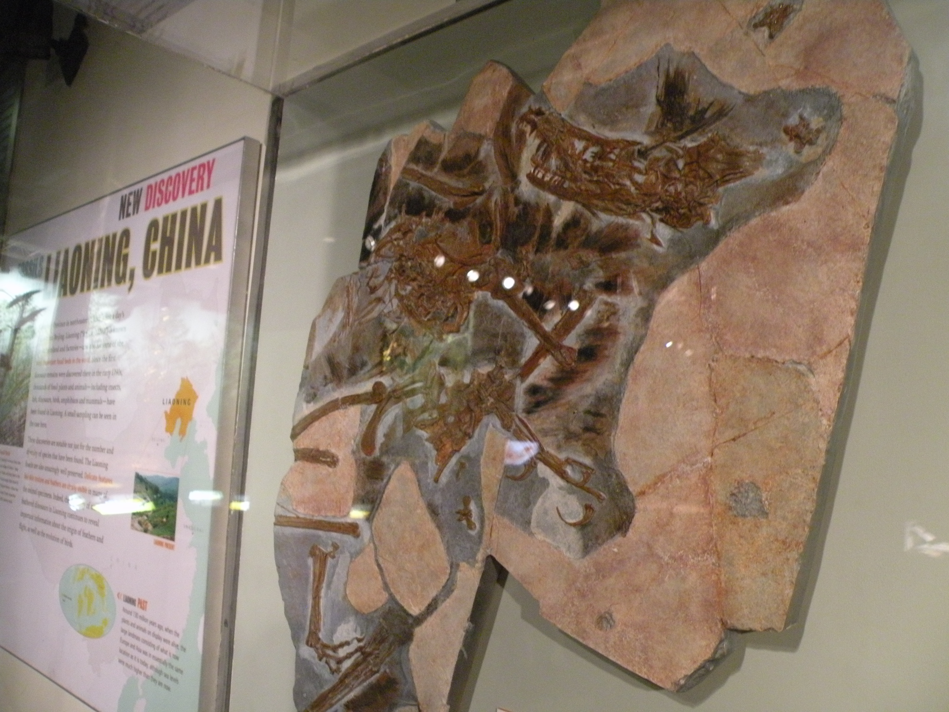 Fossil from Liaoning Province, China